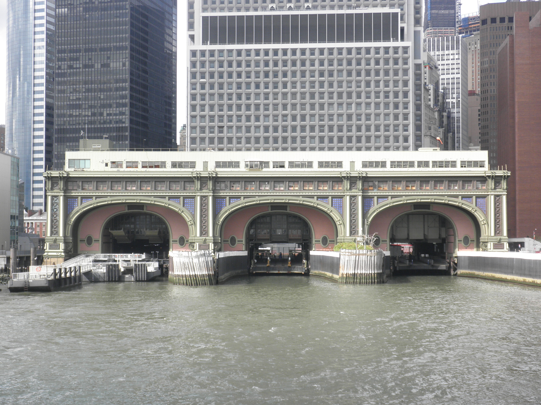 Municipal Ferry Pier